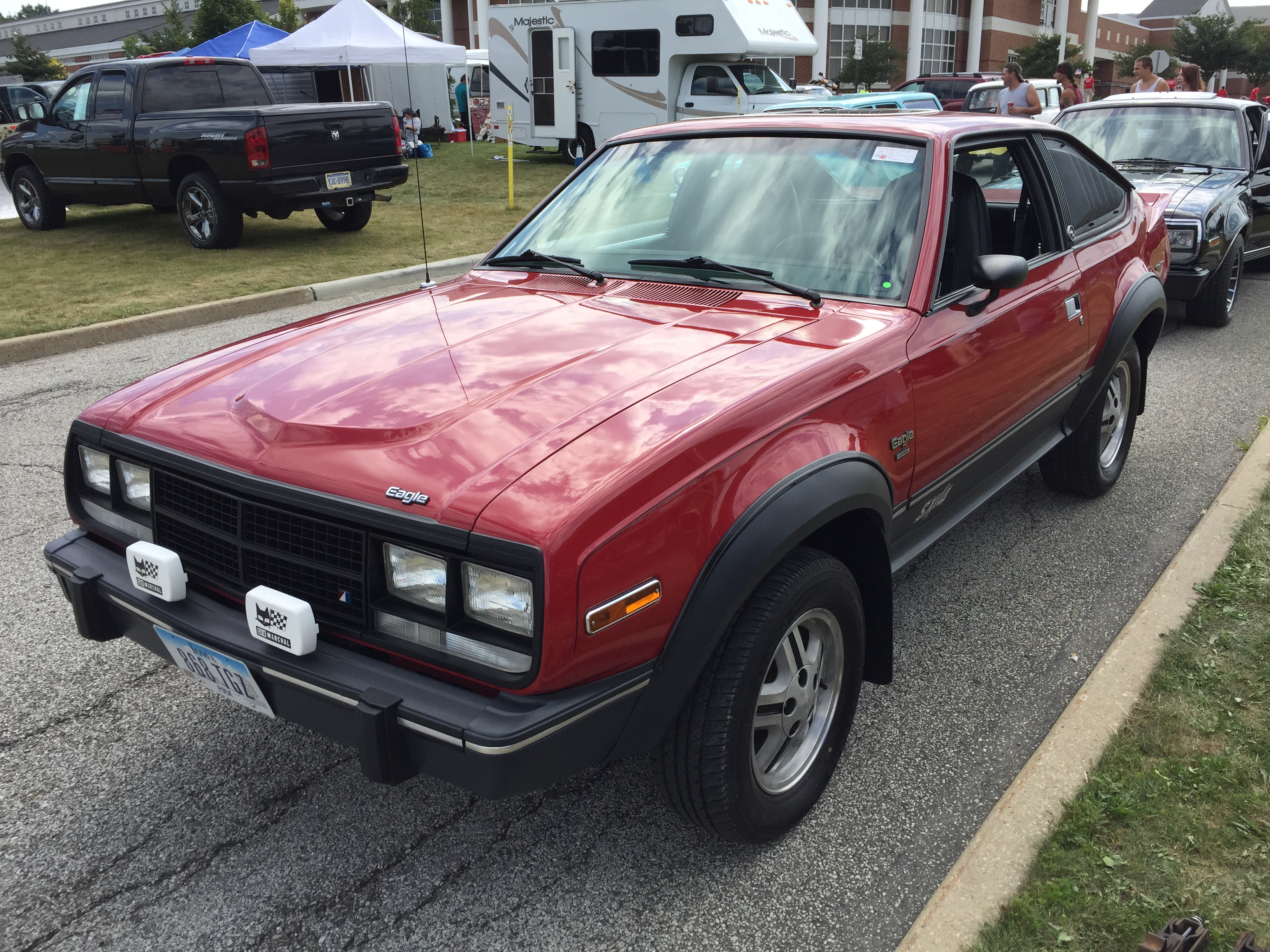 1982 AMC Eagle SX/4, an innovative all-wheel-drive subcompact car made by the American Motors Corporation (AMC). This is the smallest lift back version in the Eagle line that was based on the AMC Spirit platform. Power came from AMC's 258 cu in (4.2 L) straight six-cylinder engine with a 5-speed manual transmission and Select Drive. This car has been upgraded to AMC Jeep's 4.0 L fuel injected engine. This SX/4 also came with the $394 "Sports" package that included P195/75x15 Goodyear Arriva tires, low gloss black Kraton (polymer) plastic flares and rocker panels, black bumpers with nerf strips, black grille, black remote sport mirrors, sports steering wheel, as well as halogen headlamps and fog lamps. Picture taken at the car show on Saturday, July 25, 2015, during the American Motors Owners Association (AMO) annual convention that was held near Cleveland, Ohio.